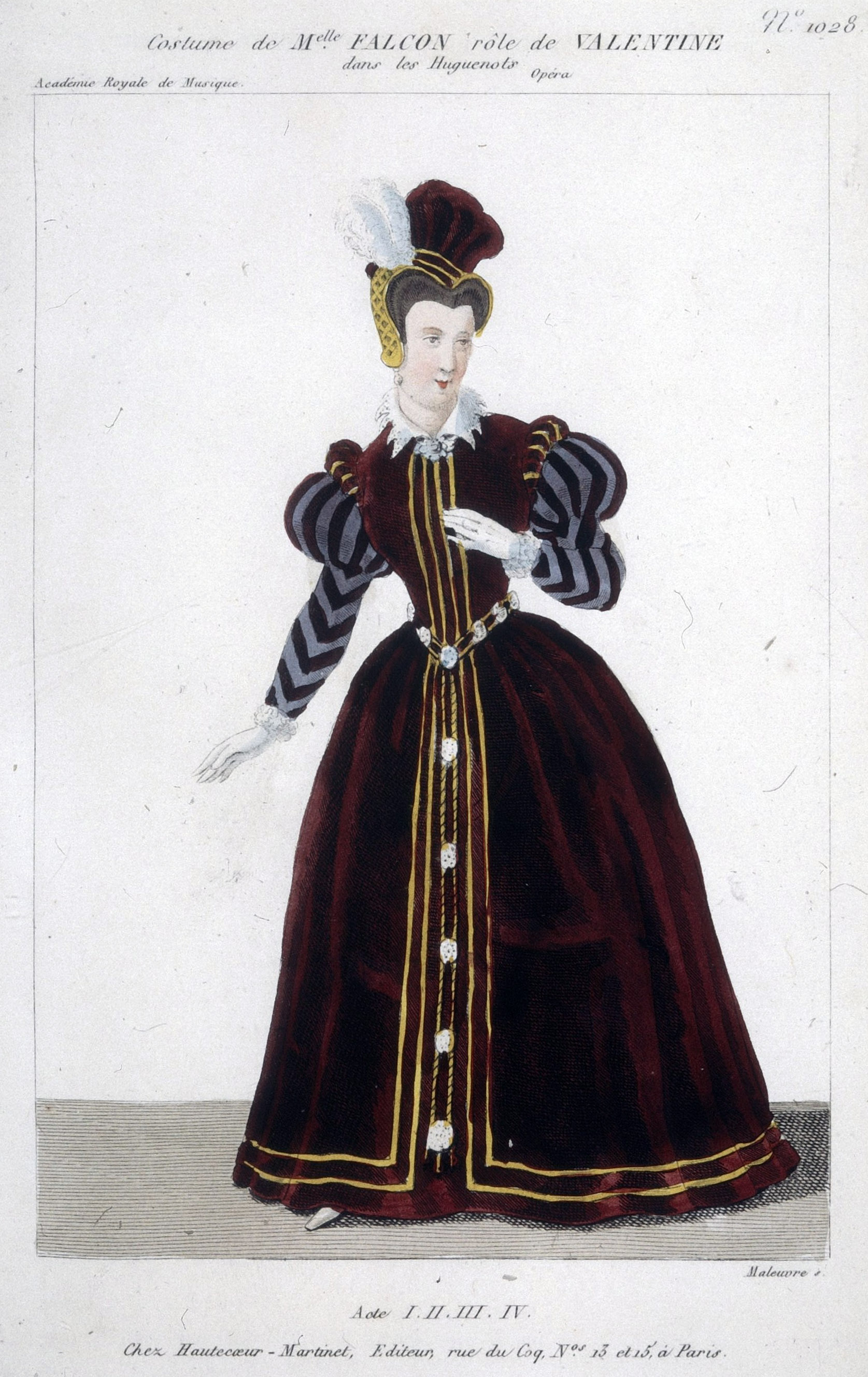 Costume design for Cornélie Falcon in the role of Valentine in Meyerbeer's opera Les Huguenots